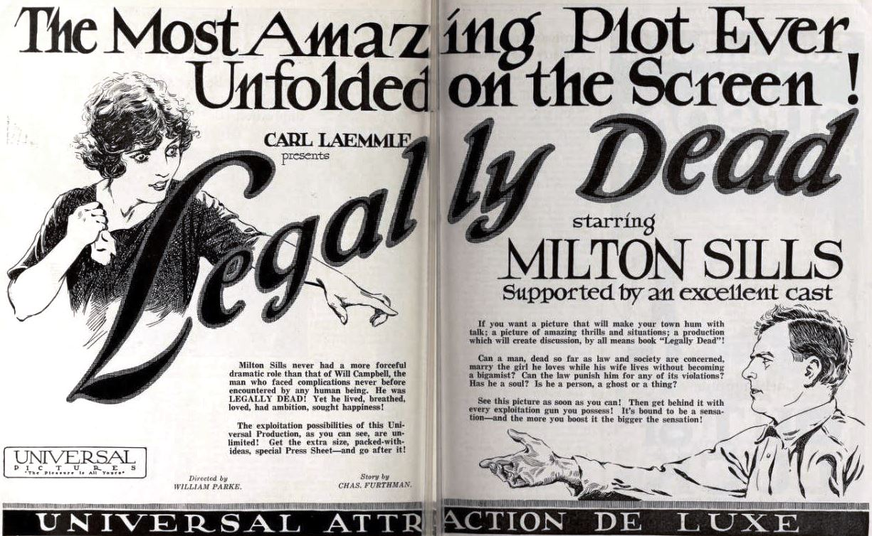 Advertisement for the American drama film Legally Dead (1923), on pages 28 and 29 of the August 4, 1923 Universal Weekly.